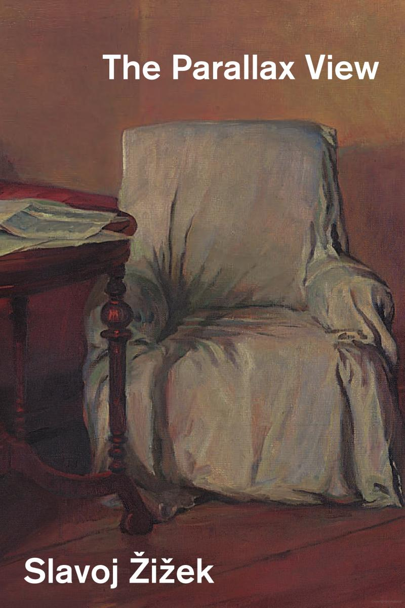 The cover of The Parallax View by Slavoj Žižek. It is from a painting of Lenin by Isaak Brodsky.